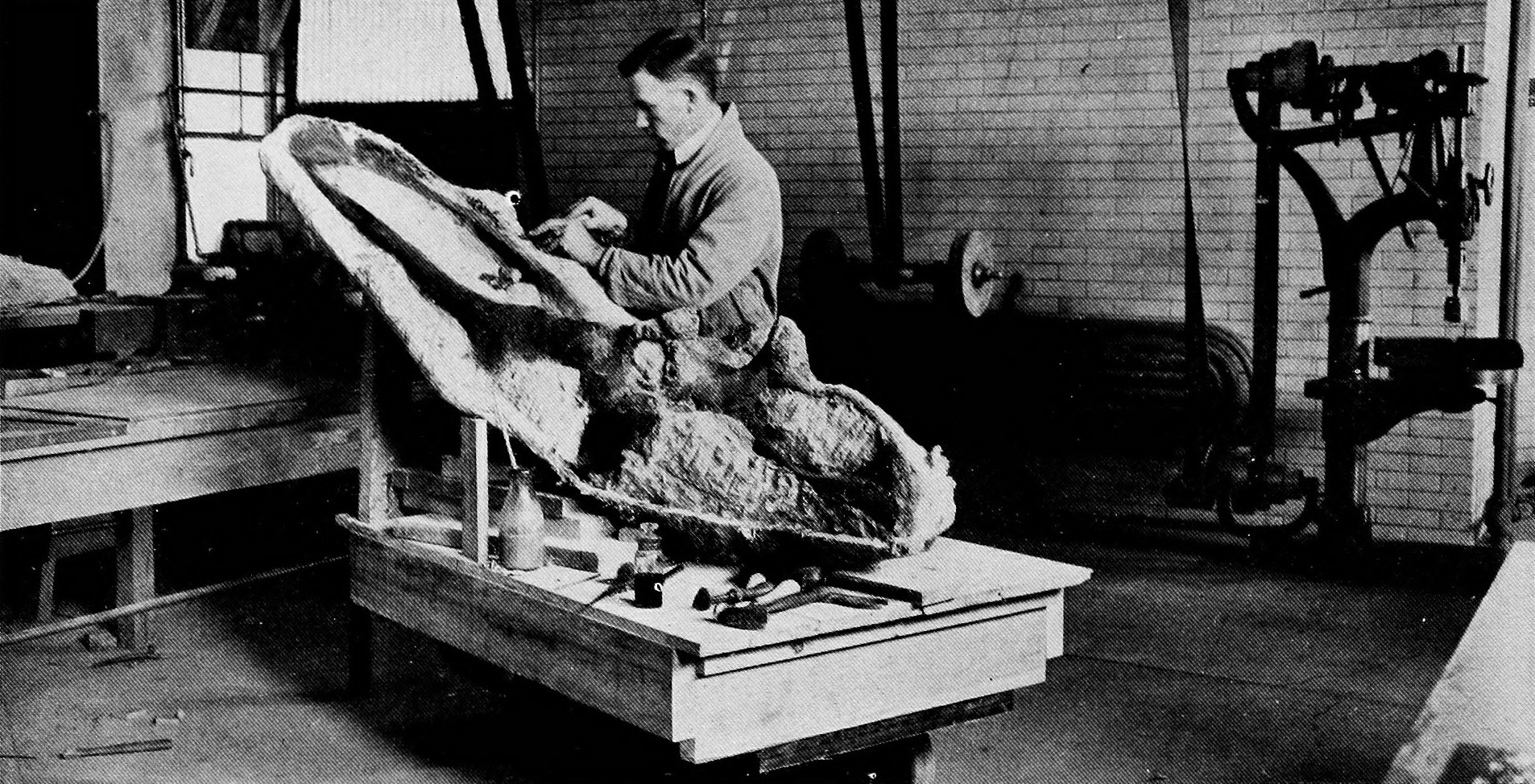 George F. Sternberg preparing the skull of Chasmosaurus belli. Title: Hunting dinosaurs in the bad lands of the Red Deer River, Alberta, Canada; a sequel to The life of a fossil hunter Year: 1917 (1910s) Authors: Sternberg, Charles H. (Charles Hazelius), b. 1850 Subjects: Paleontology; Dinosaurs Publisher: Lawrence, Kan. , C. H. Sternberg Text Appearing Before Image: ' Text Appearing After Image: '